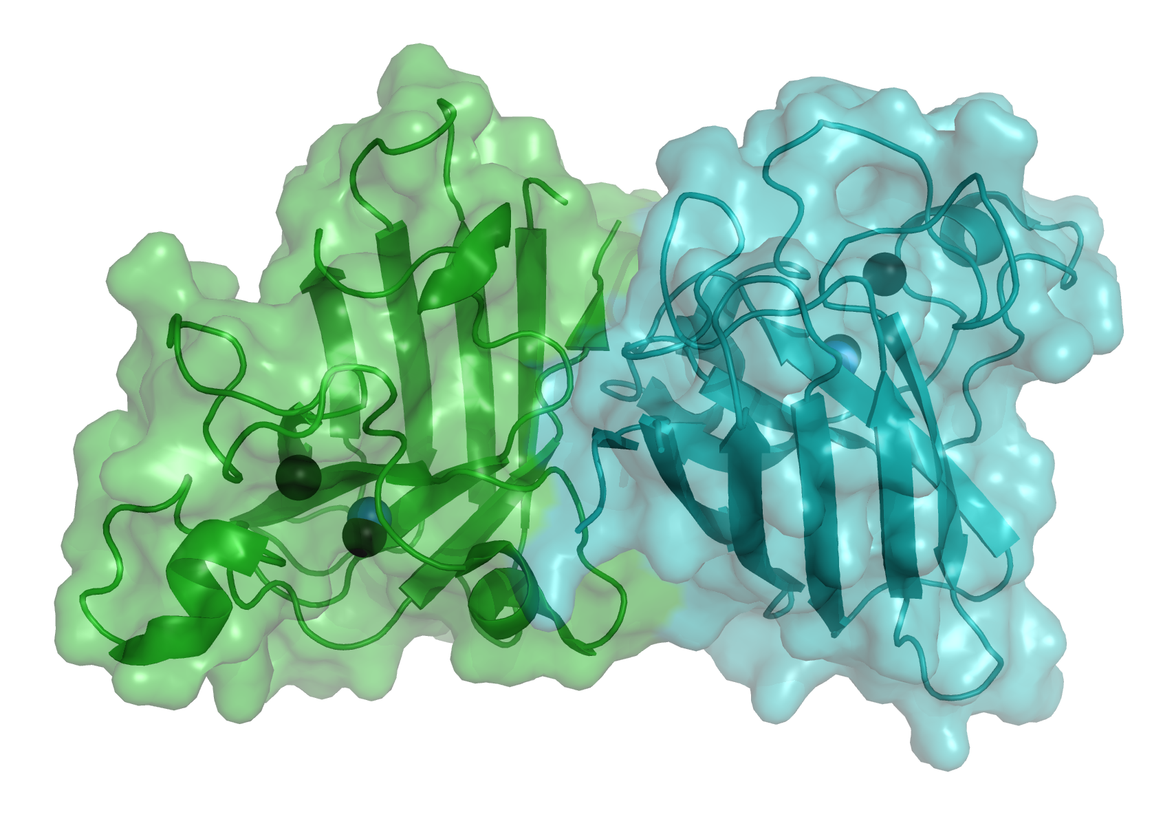 3d ribbon and surface model of human cytoplasmic superoxid dismutase (SODC) dimer with Zn2+ (black) and Cu2+ (blue) ions from PDB 1C9U. Ref.: R.W.Strange et al. (2006). Variable Metallation of Human Superoxide Dismutase: Atomic Resolution Crystal Structures of Cu-Zn, Zn-Zn and As-isolated Wild-type Enzymes.. J Mol Biol, 356, 1152-1162. PMID 16406071 [